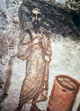 Saint Paul, Christ and the Christian as a philosopher is a theme in Early Christian art. Paul's dress, the scroll in his hands, and the container with more scrolls at his feet, all identify Paul as a philosopher.